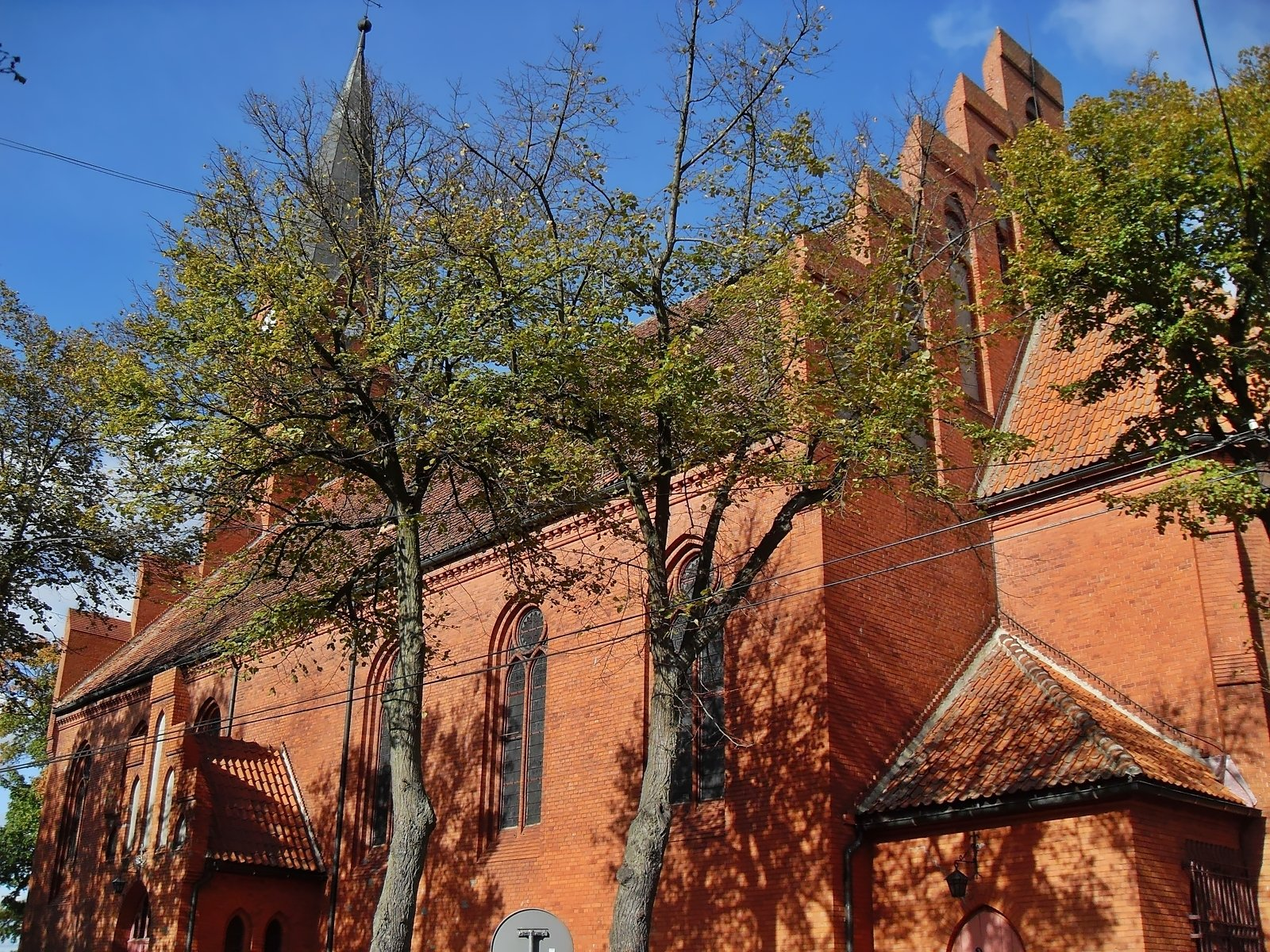 The side wall of the Long Street